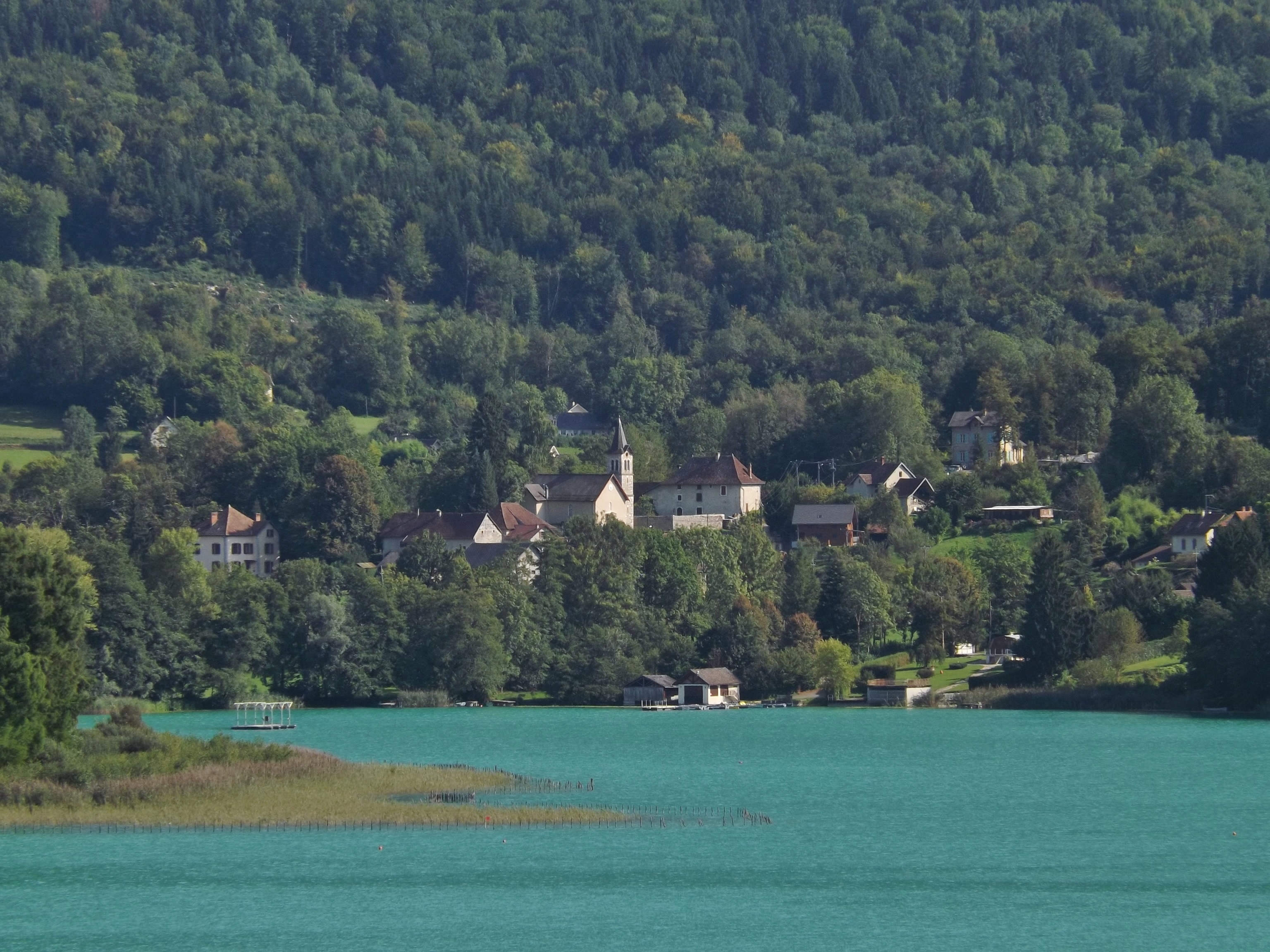 Panoramic sight of Lépin-le-Lac village, from the opposite side of the lac d'Aiguebelette lake, near Chambéry in Savoie, France.